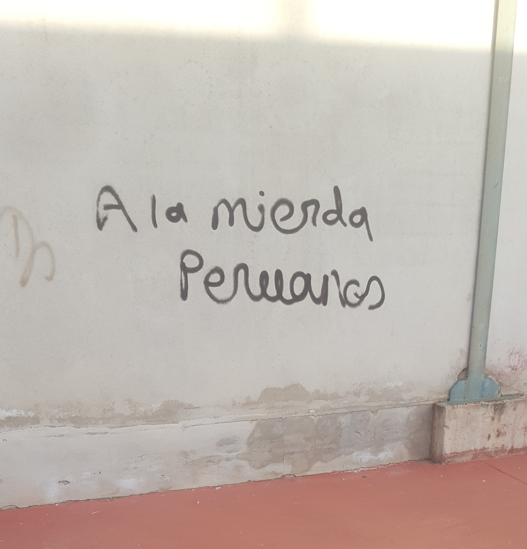 Xenophobic graffiti "Fuck Peruvians" in a street of Cijuela, Granada, Spain.